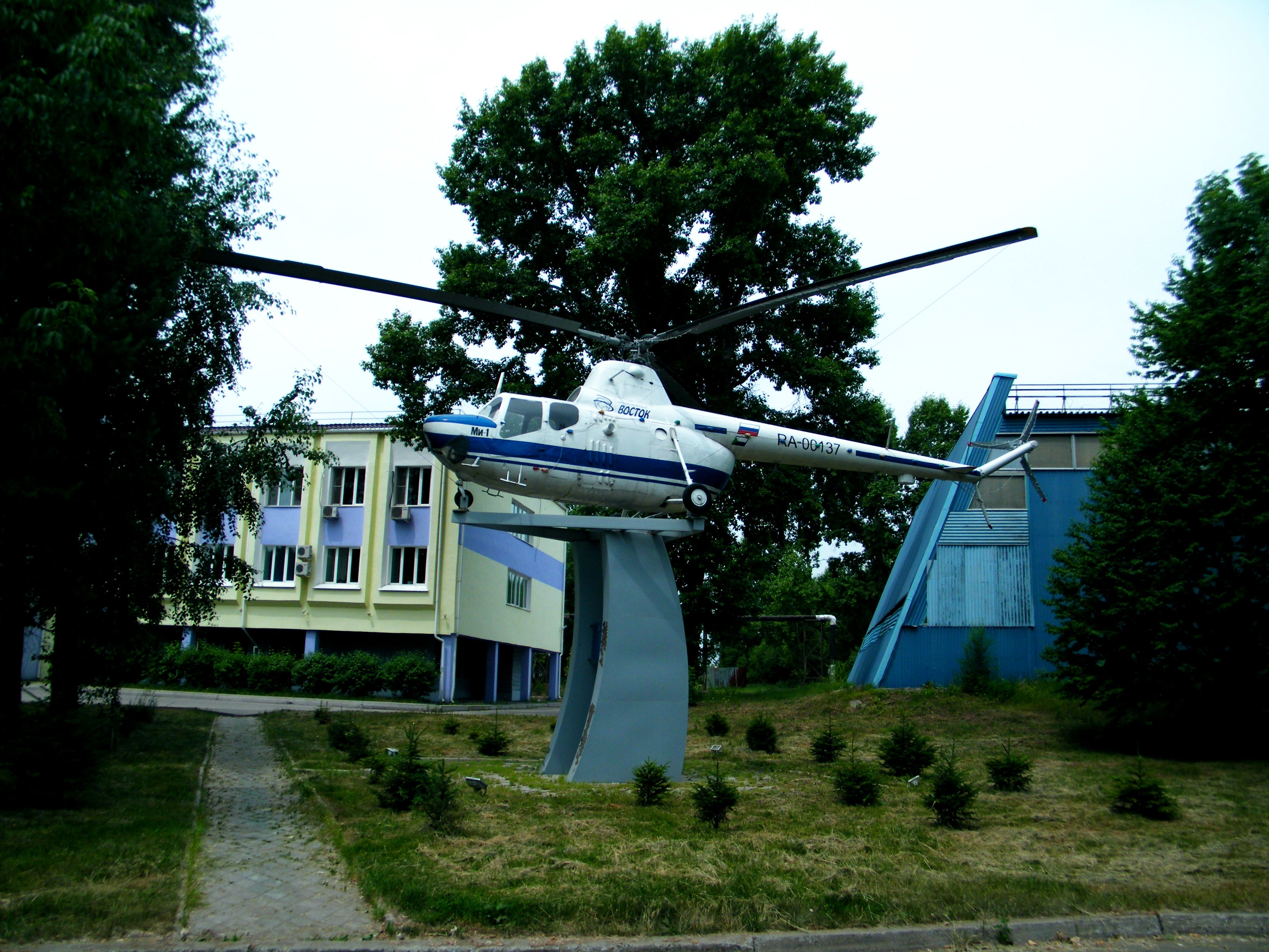 Вертолет Ми-1 в Хабаровске